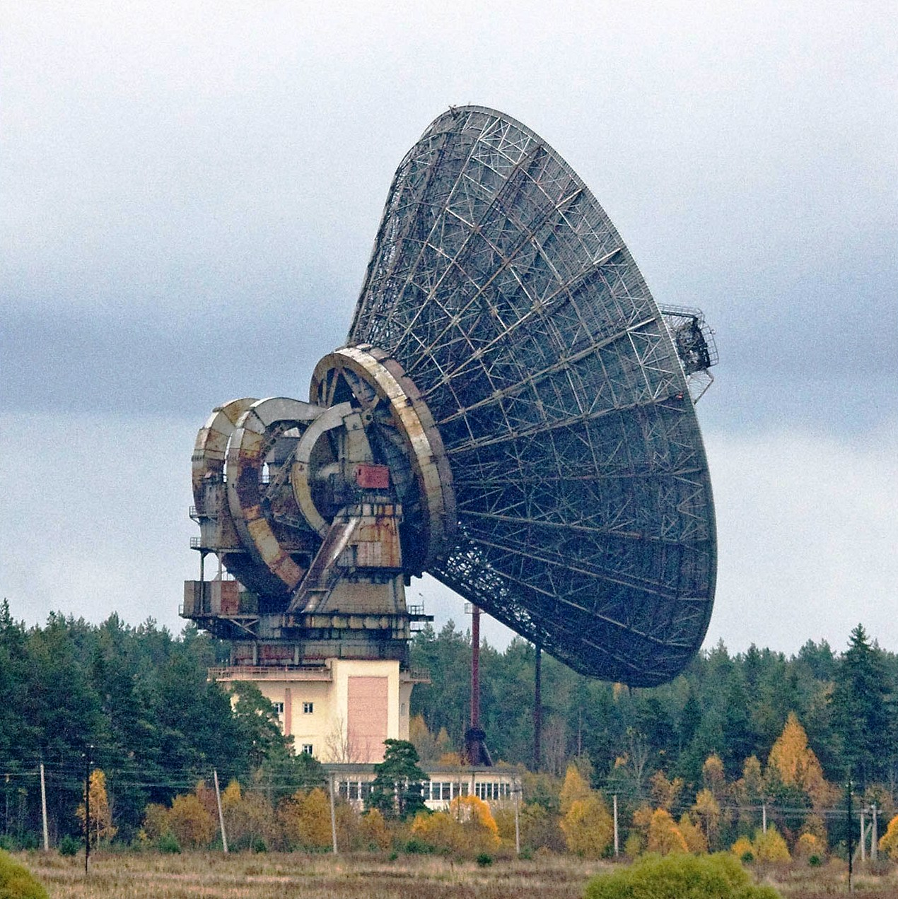 TNA-1500 radio telescope in Kalyazin.